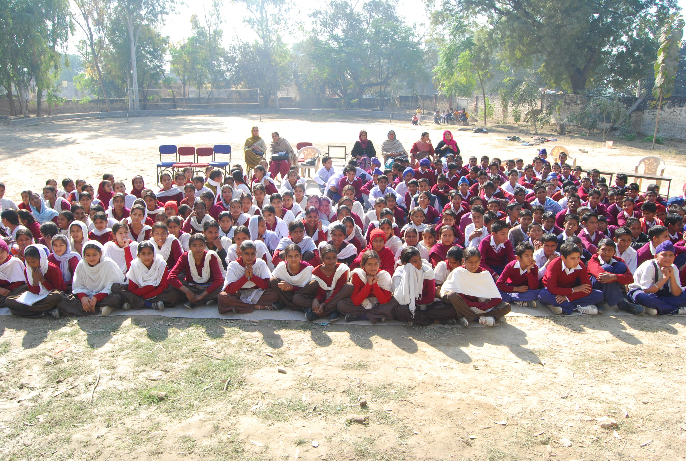 Students and teachers attending an annual award ceremoy